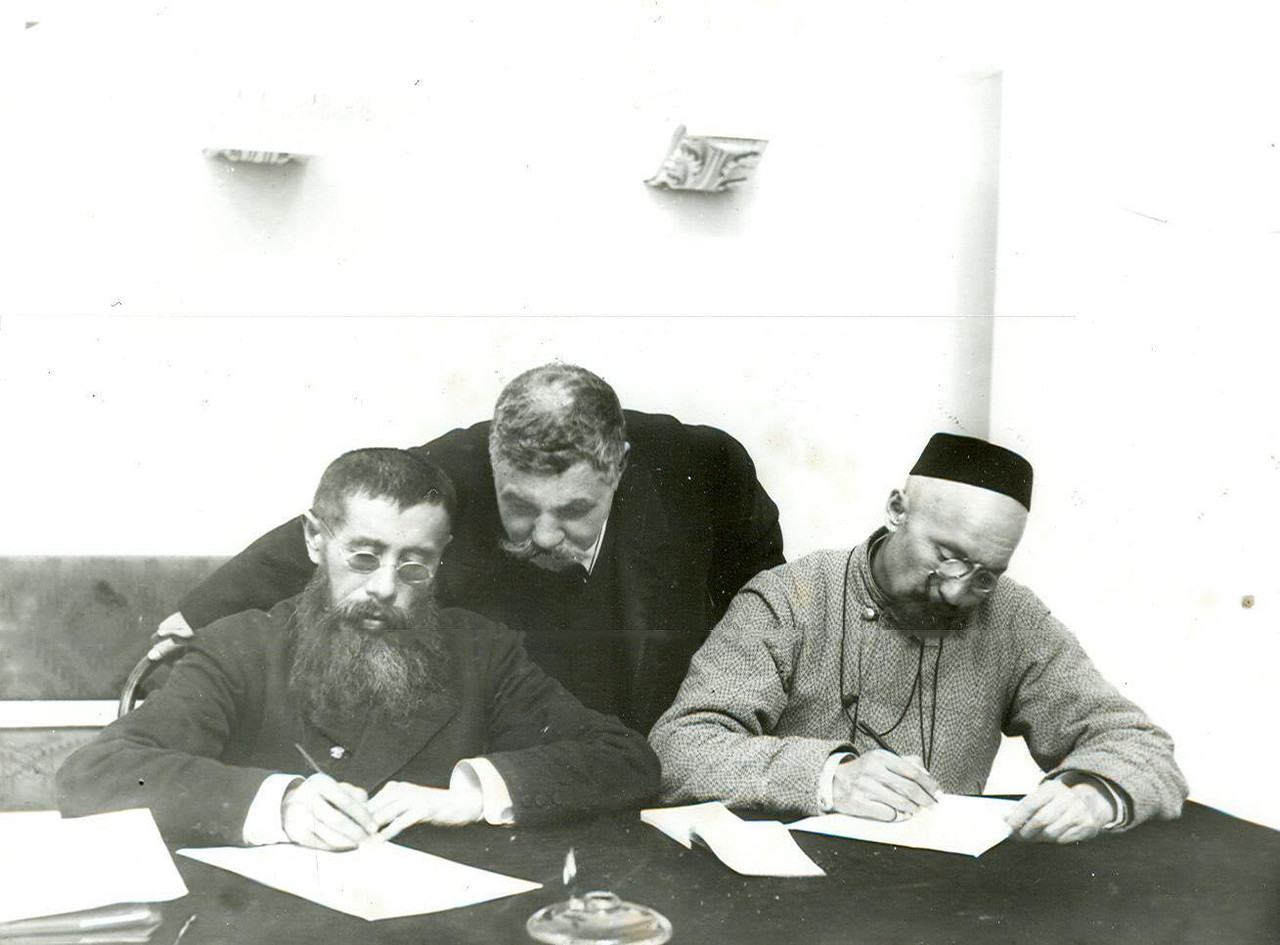 The members of the second Russian State Duma, 1907. Bahytjan Karataev (каз. Бақытжан Қаратайұлы), Muhamed Shahtahiski (azerb. Məhəmməd Şahtaxtinski) from Baku and Temirgali Narokonev.(kaz. Темірғали Нұрекең)